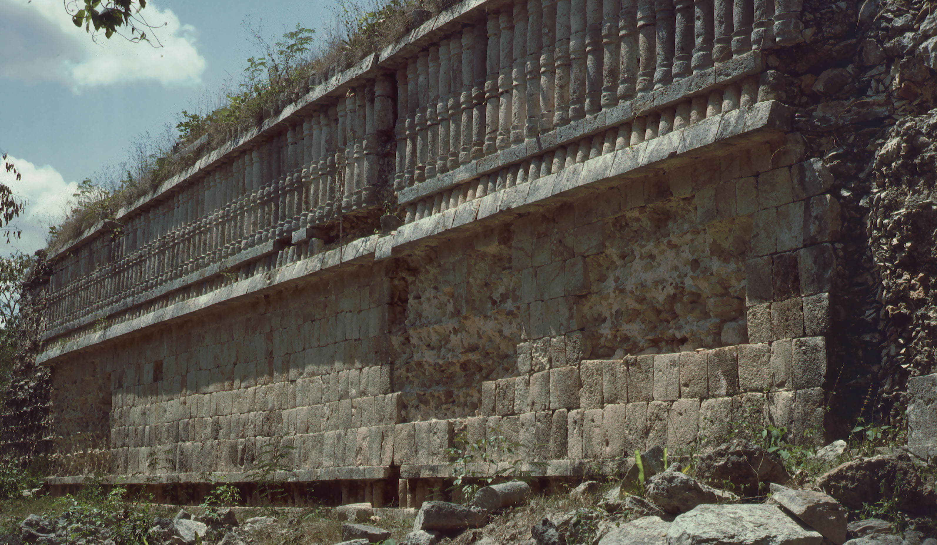 Kabah, Yucatan, Mexico: East Group, rear side.